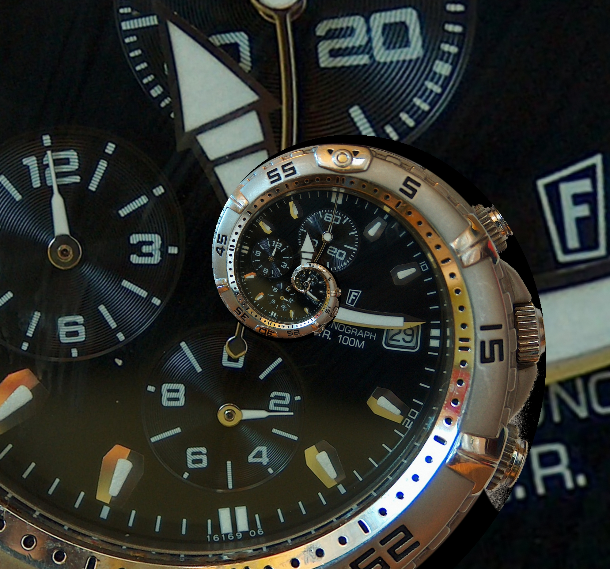 Recursive image of a clock's face illustrating the Droste effect. Created using the mathmap plugin for GIMP. Author's description: Inspired by this one and other in the Escher droste effect gallery group. Looking at this picture, I realized I forgot to change the day number...